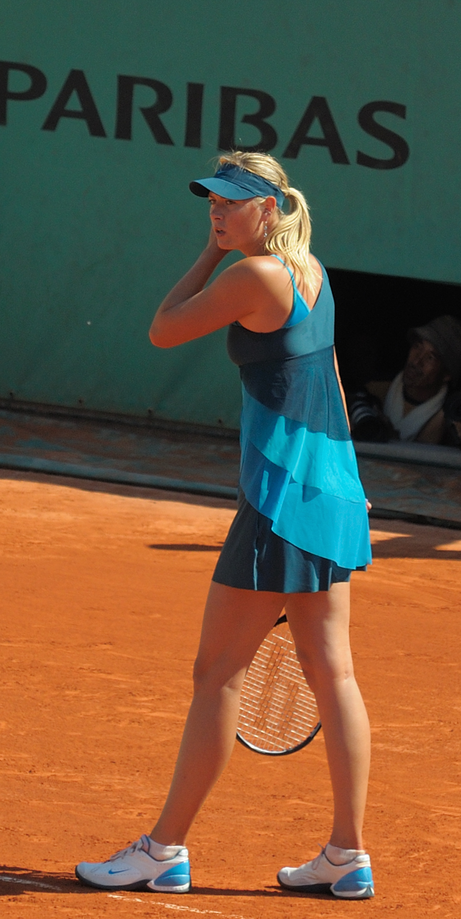 Maria Sharapova at 2009 Roland Garros, Paris, France.